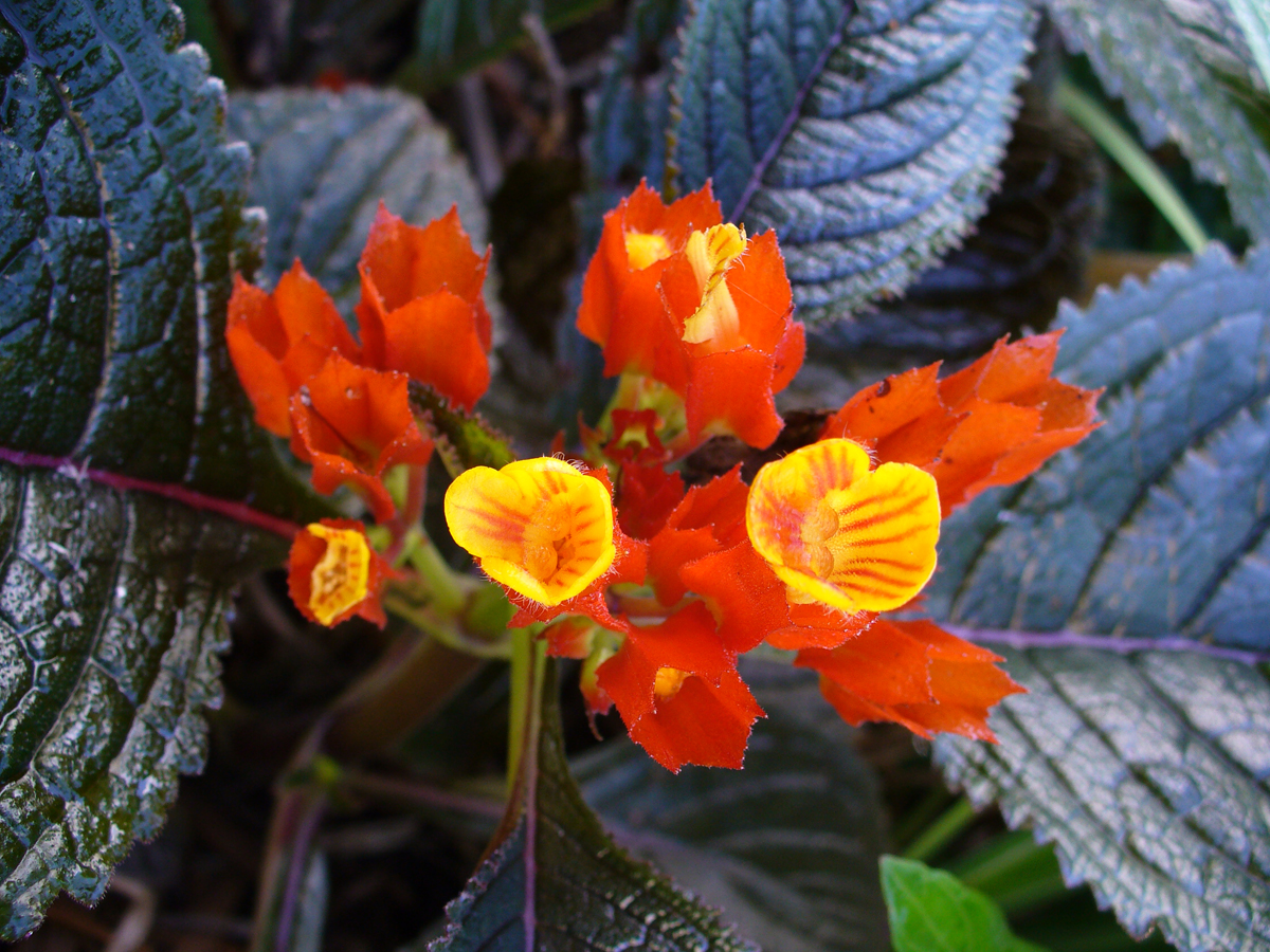 Chrysothemis pulchella in South Miami, FL, USA